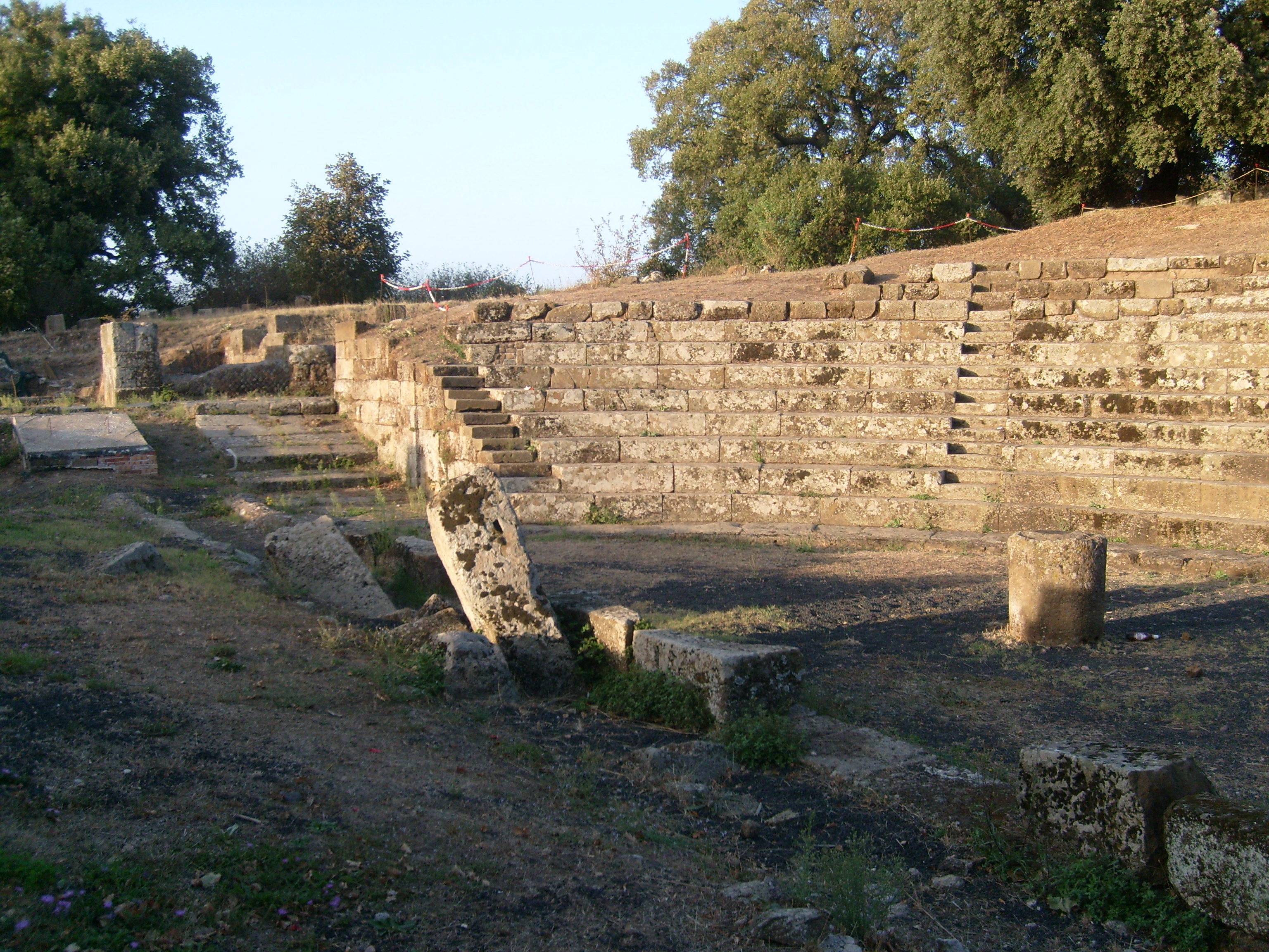 Theatre of Tusculum